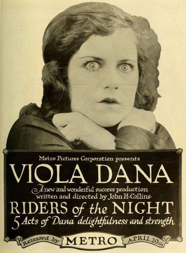 Advertisement in The Moving Picture World for the American silent film Riders of the Night (1918).